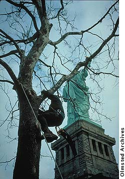 Arborist prunning tree near Statue of Liberty, New York. Photo under license of National Park Service, United States Government, Frederick Law Olmsted National Historic Site.